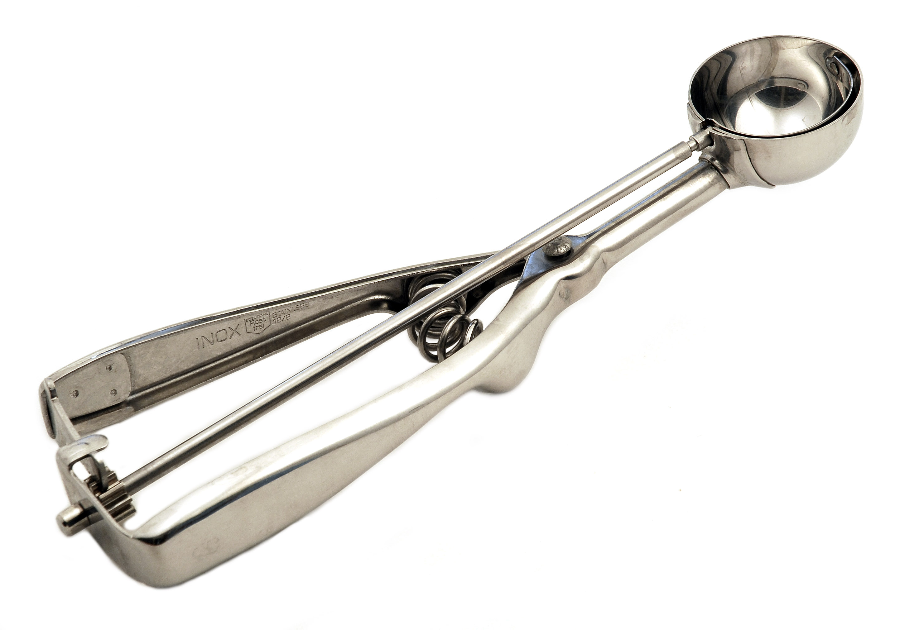 A small kitchen scooper.